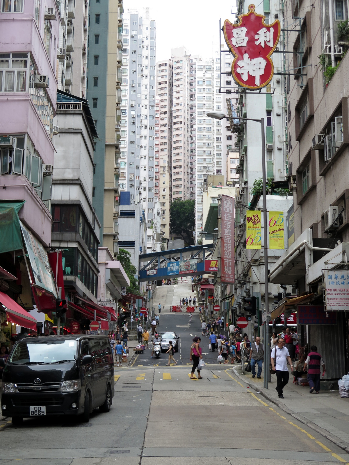 Centre Street, Sai Ying Pun